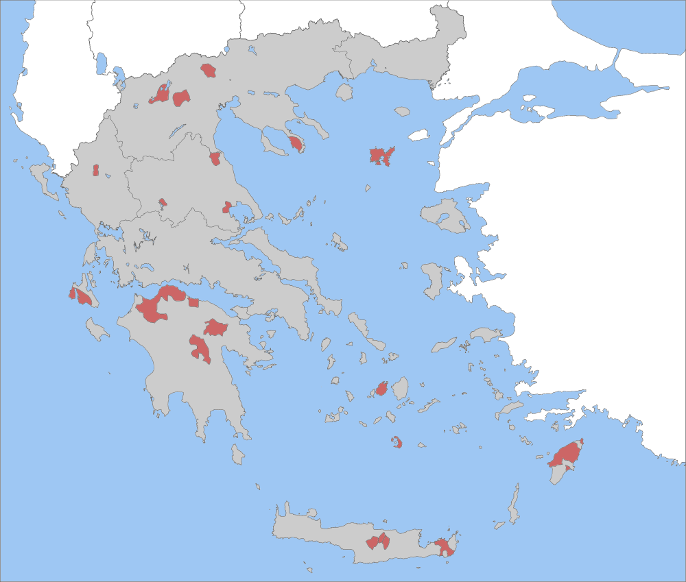 Greek wine regions and OPAP-Appellations (red)